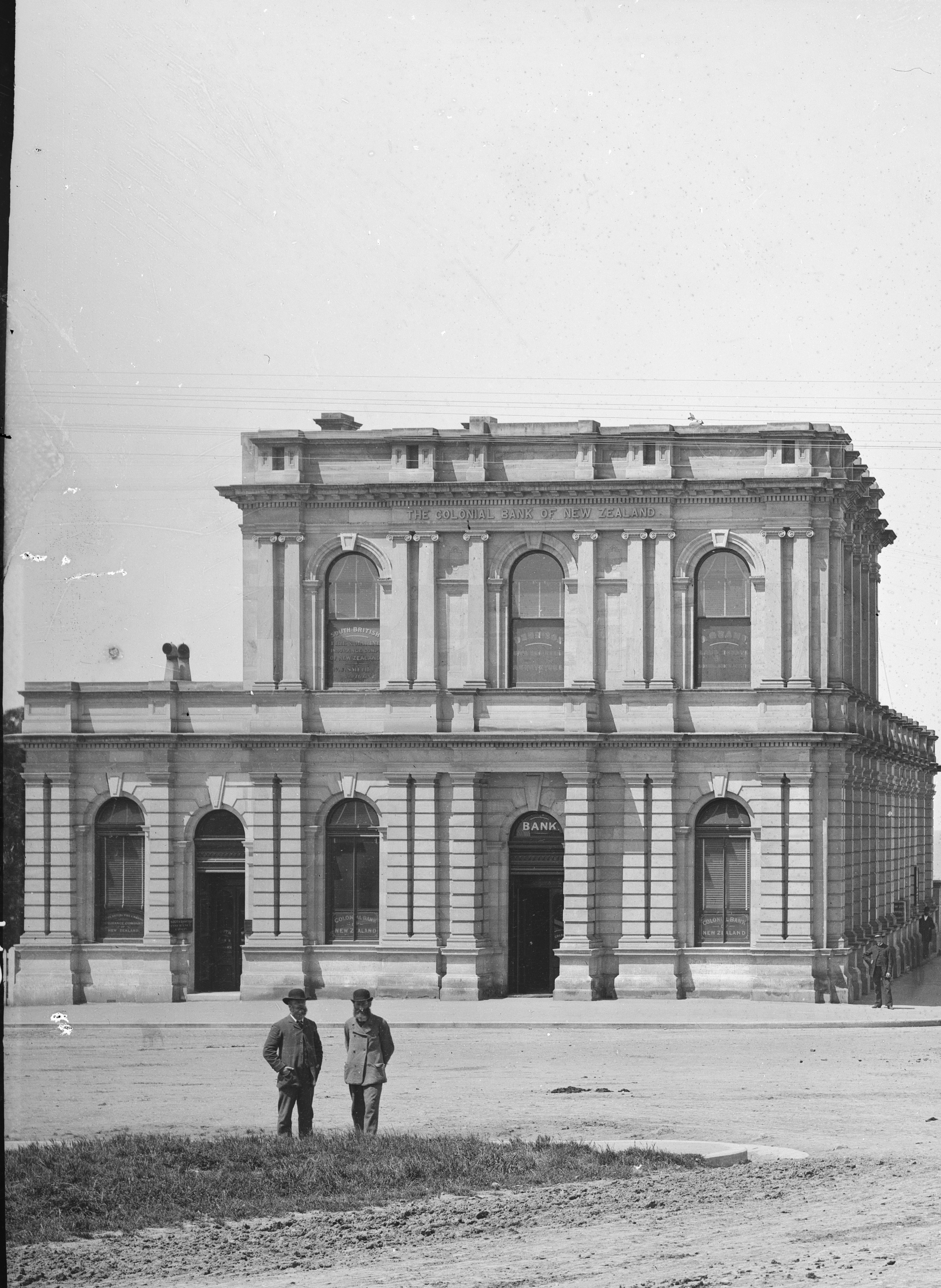 Colonial Bank of New Zealand visible on left at junction of Thames, Itchen and Tees Streets